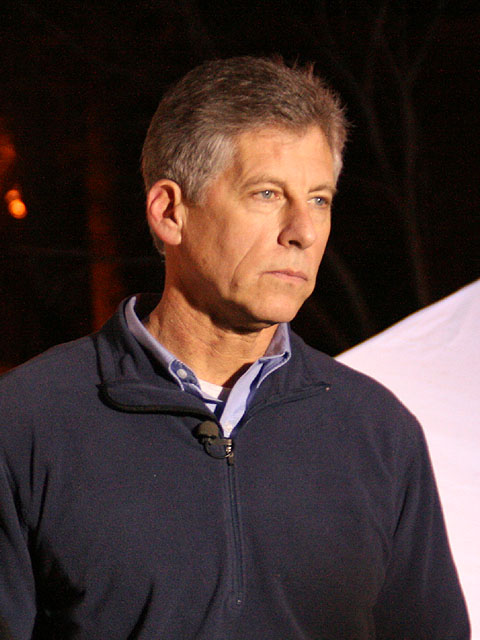 Person: Mark Fuhrman in North Carolina (2008) Photographer: Angel Laws Summary: I took this shot on January 12th when Mark was reporting via satellite to Geraldo Rivera for a Fox News segment.